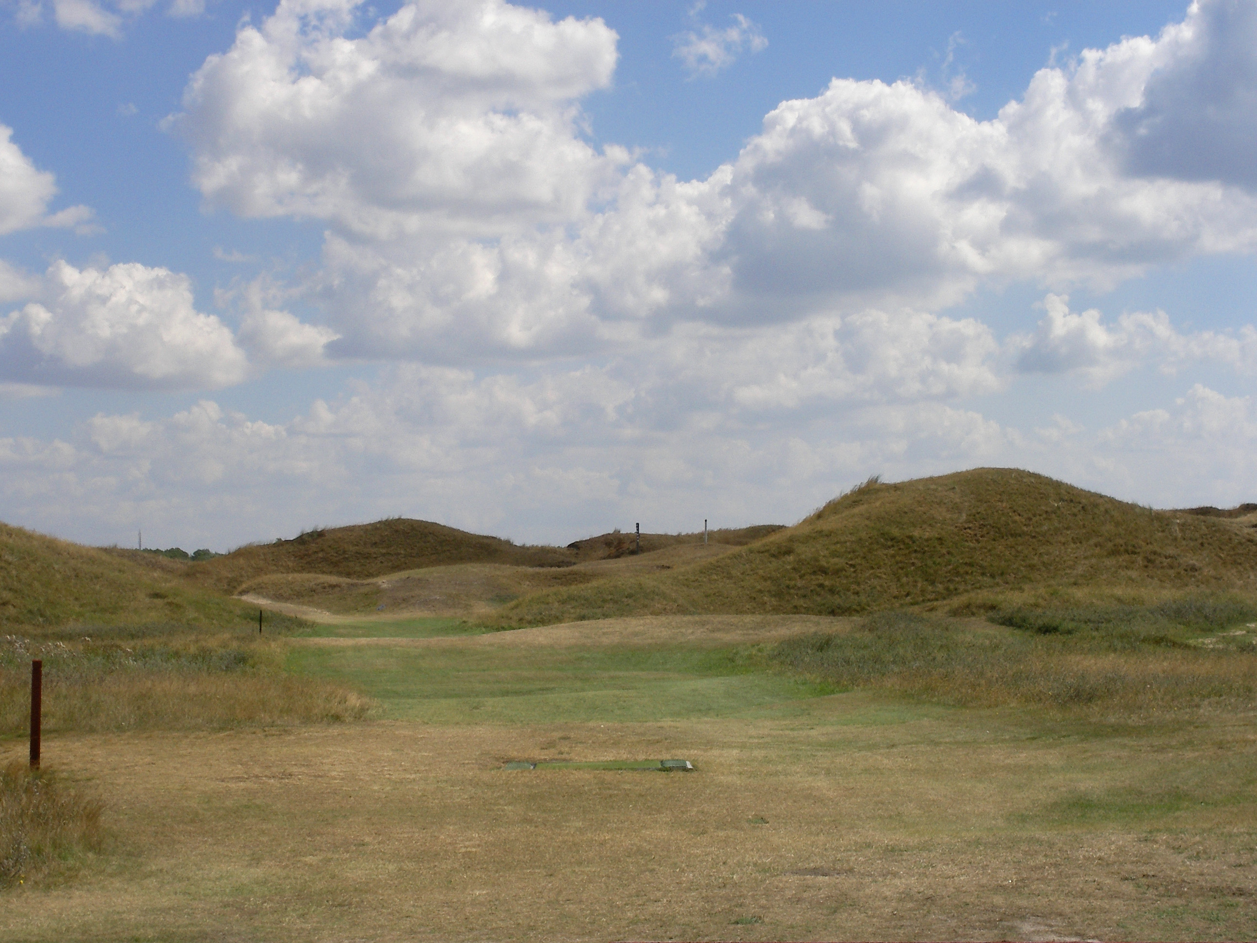 5th Tee, a blind Par 3 at Fanø Golf Links, Denmark